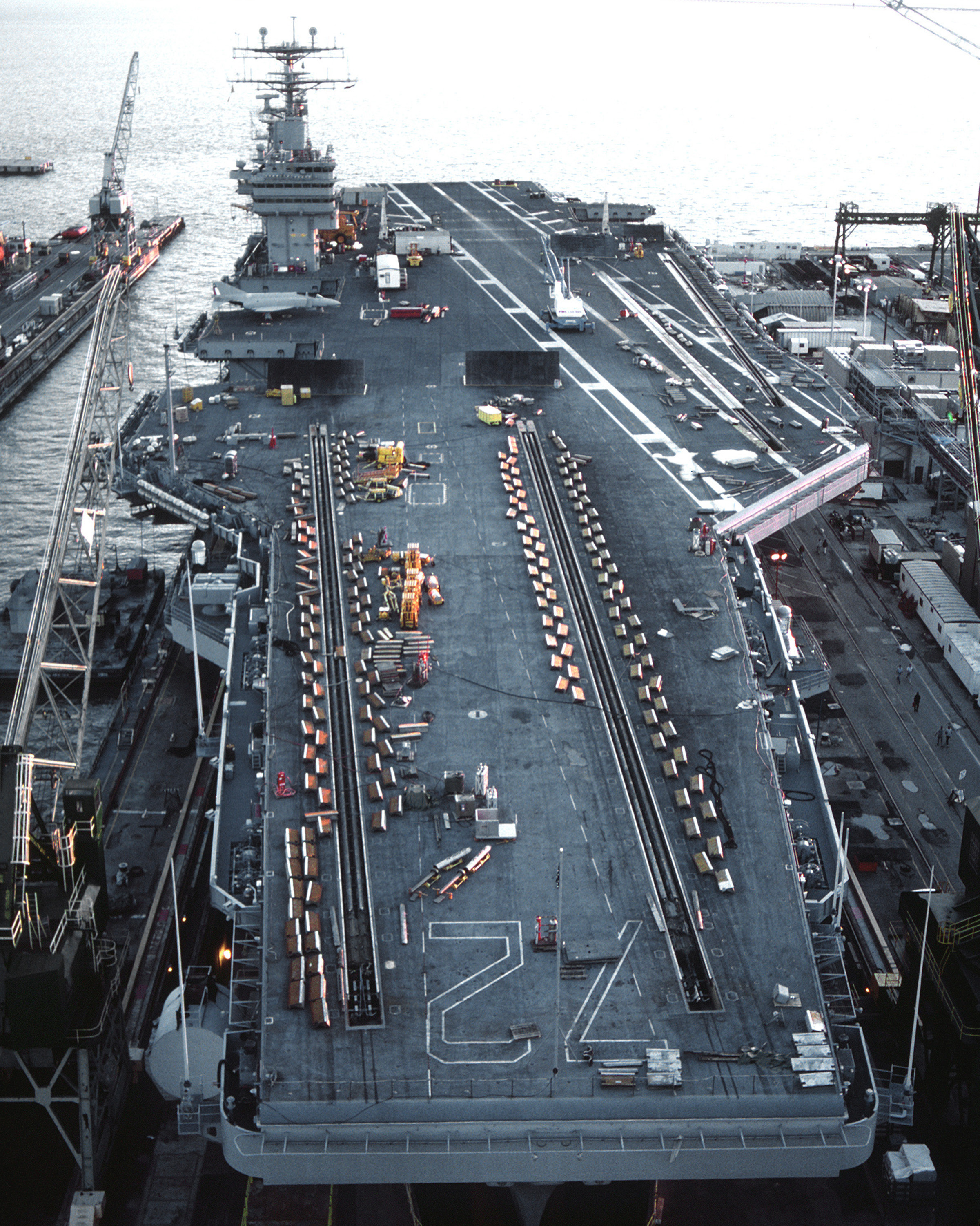 The nuclear-powered aircraft carrier USS ABRAHAM LINCOLN (CVN-72) lies in dry dock at the Newport News Shipbuilding yard in the late afternoon during its post-shakedown cruise availability period. Location: NEWPORT NEWS, VIRGINIA (VA) UNITED STATES OF AMERICA (USA)